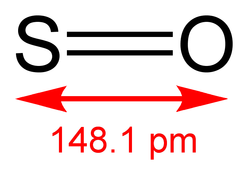 Space-filling model of the sulfur monoxide molecule, SO